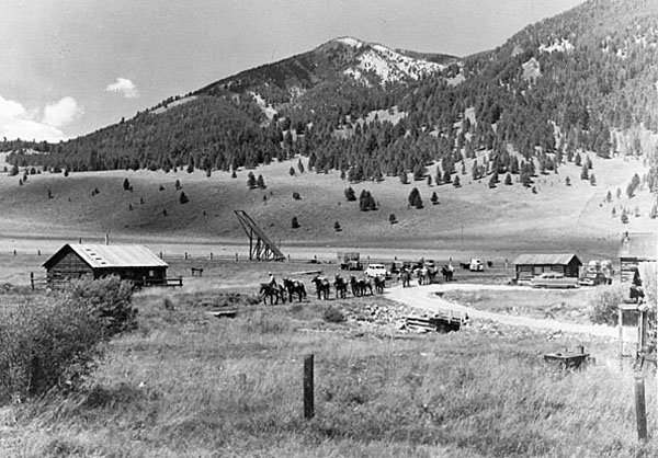 Pack train departing Crail Ranch in what is now Big Sky, Montana about 1955